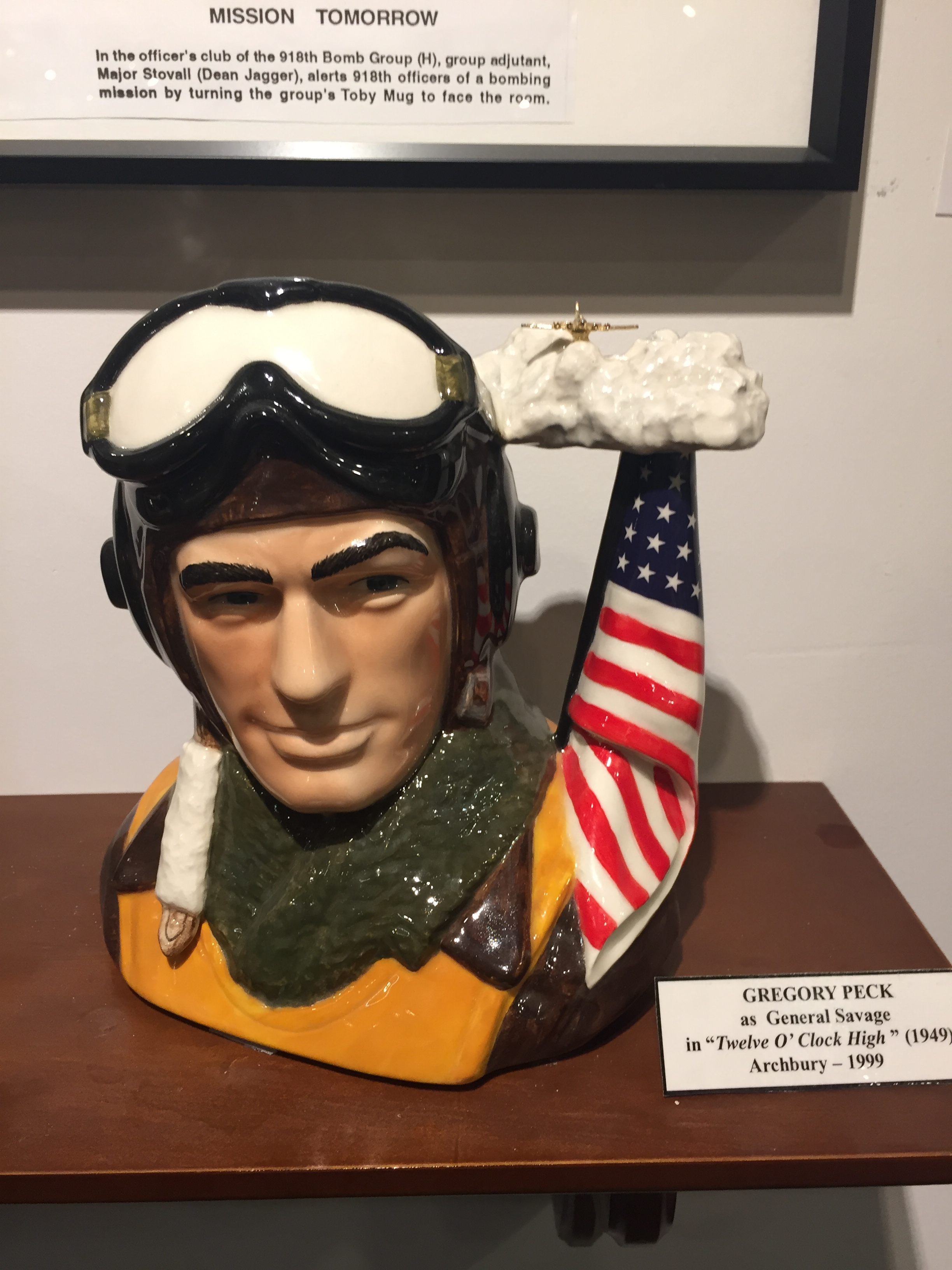 Figure of Gregory Peck in American Toby Jug Museum (2018)